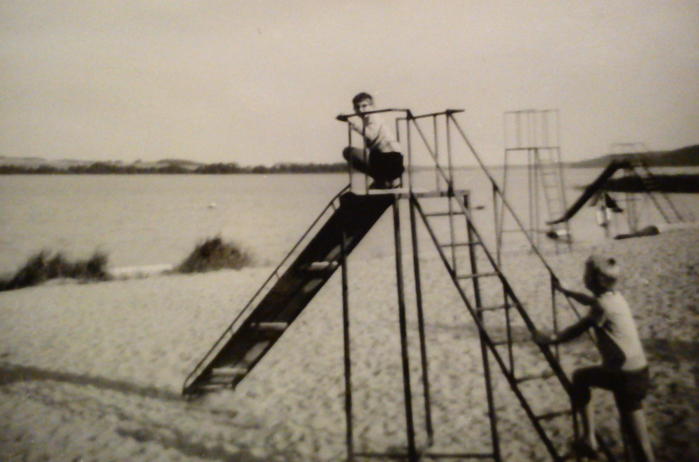 Lubie Lake, Drawsko Pomorskie. 08.1970.